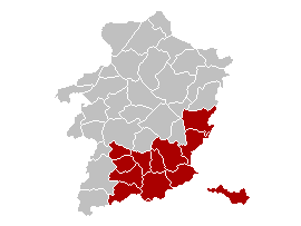 Map of Tongeren District in province of Limburg, Belgium.